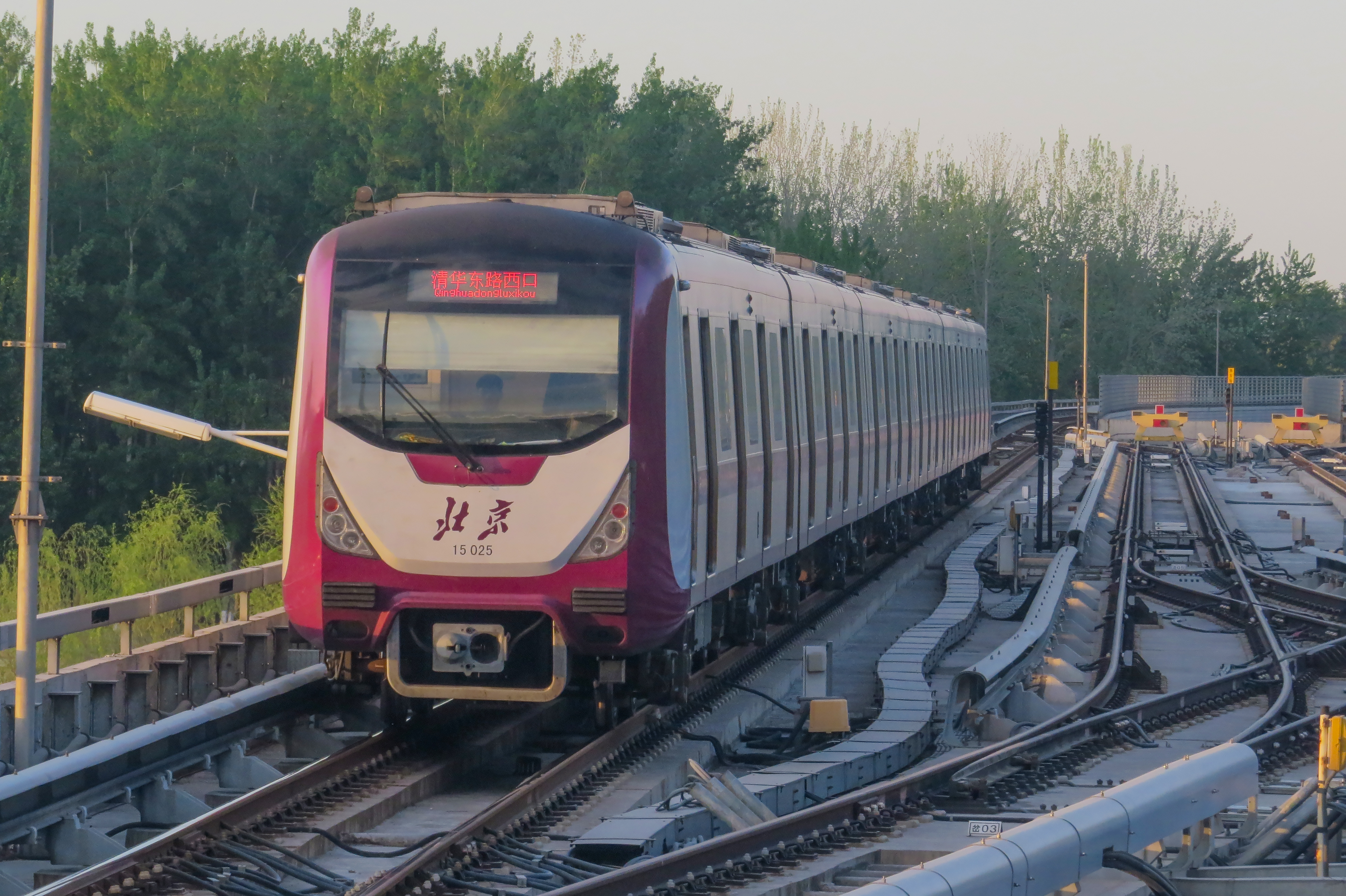 In such a haste!